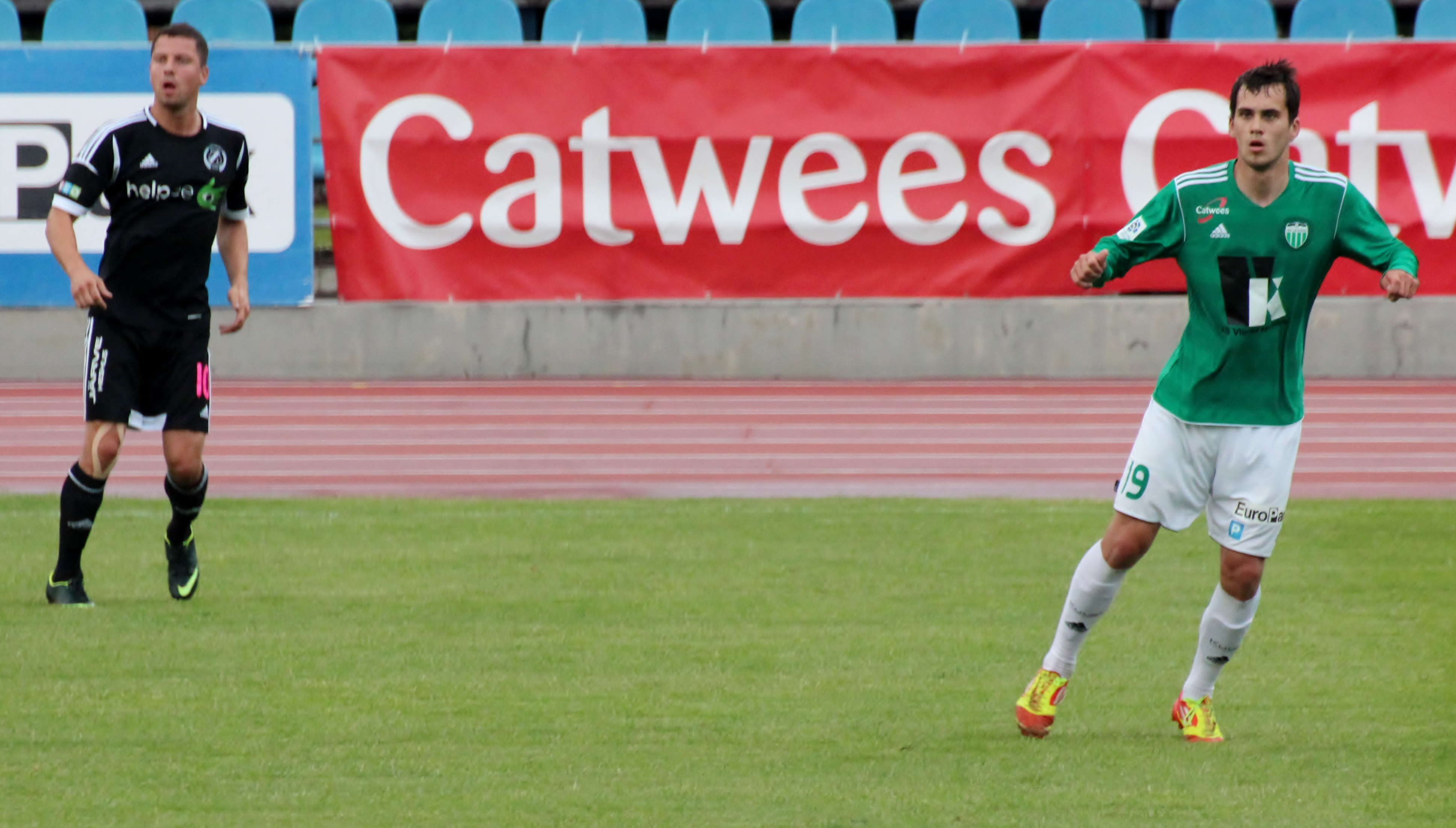 JK Nõmme Kalju player Oliver Konsa (in black) and FC Levadia player Aleksandr Kulinich (in green)